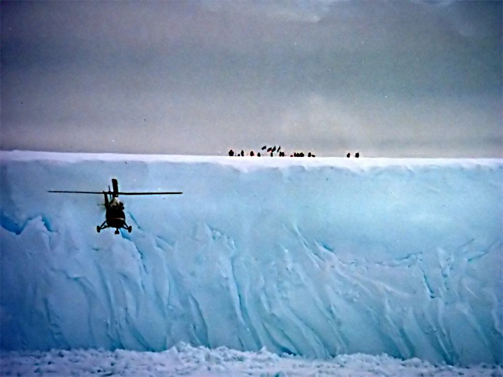 A helicopter was used to land at Iceberg B15-D in Ross Sea, Antarctica NASA Satellite image from 2001